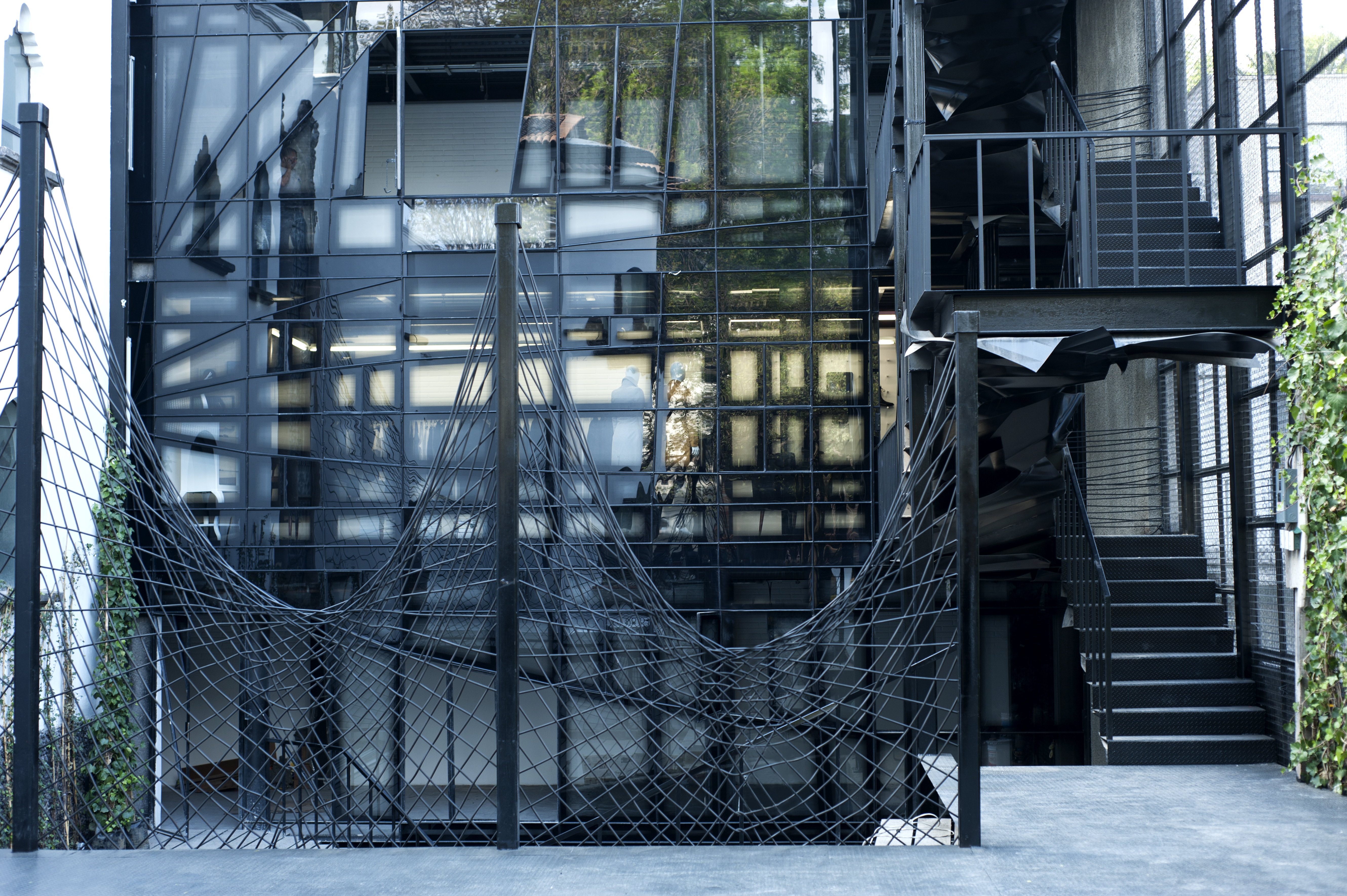 Paola Hernandez store Mexico City